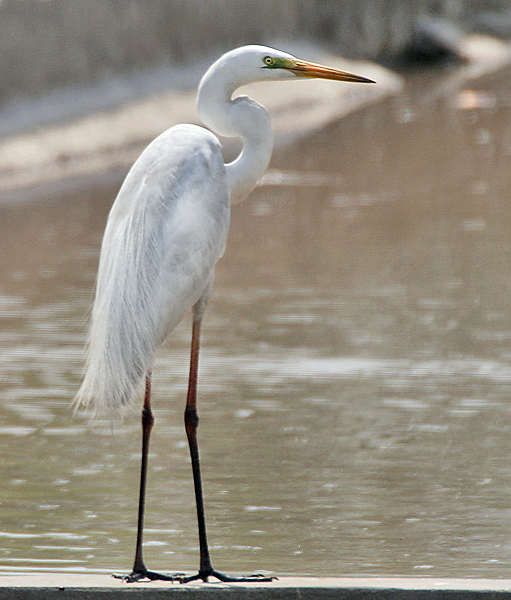 Eastern Great Egret Ardea modesta at Sultanpur National Park in Gurgaon District of Haryana, India